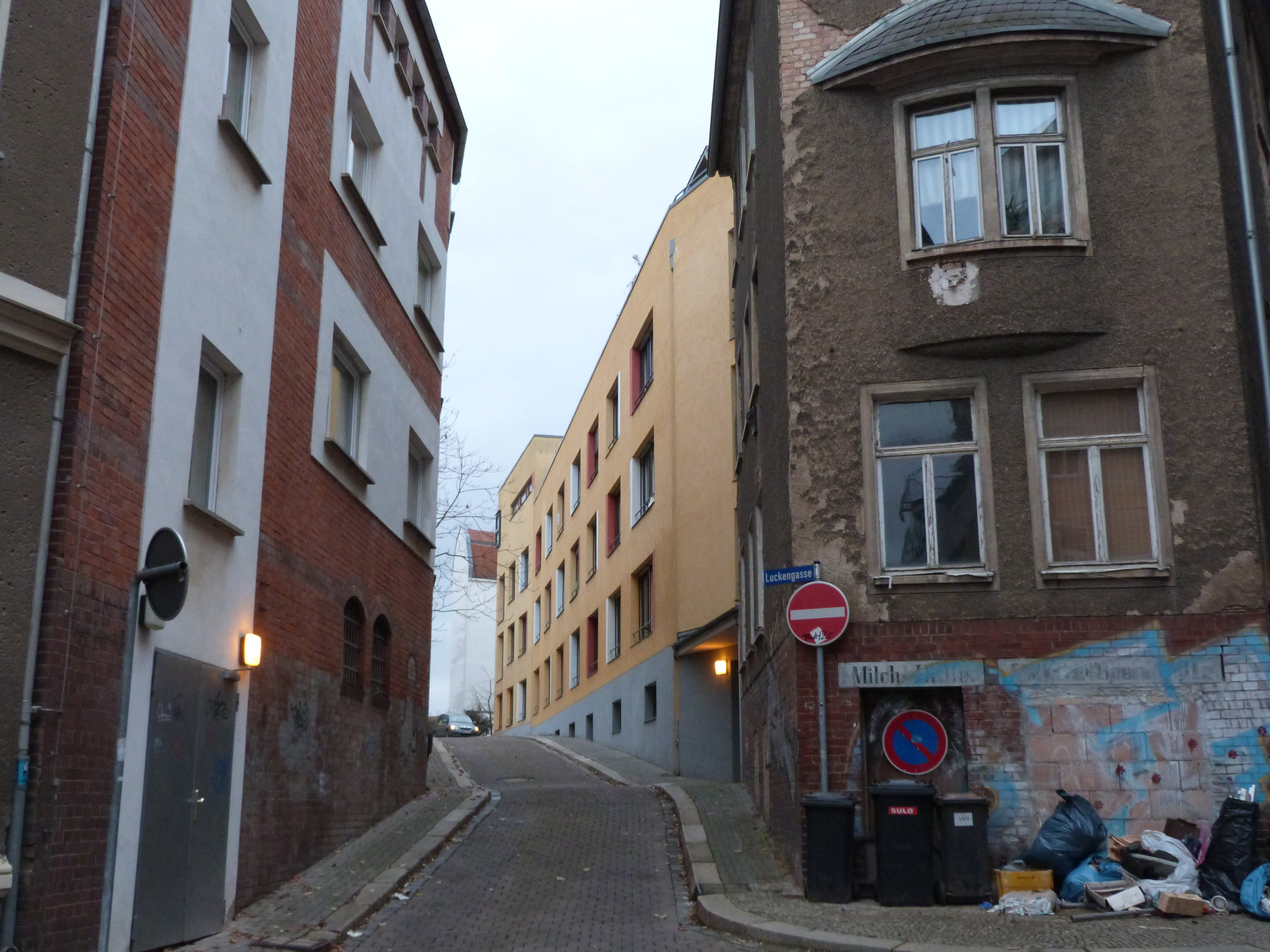 Street Luckengasse in Halle (Saale)